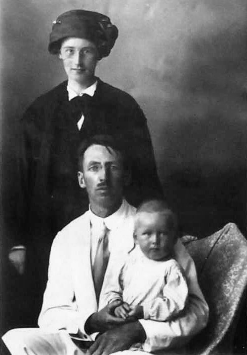 Dr. Floyd Olin Smith (1 December 1885 - 6 August 1961) was an American doctor who served in the Ottoman Empire (1913-1917) under Near East Relief and Red Cross. During his time in the Ottoman Empire, Floyd Smith was a caretaker of many Armenians who were victims of the Armenian Genocide. He wrote extensively about the treatment of his patients provided detailed medical assessments of each of them. Floyd Smith eventually worked in the Philippines for nine years (1918-1927). He remained in the Philippines for another thirty years. During World War II, he was captured by Japanese forces and was held as a prisoner of war. He returned to the United States where he ultimately died in 1961.